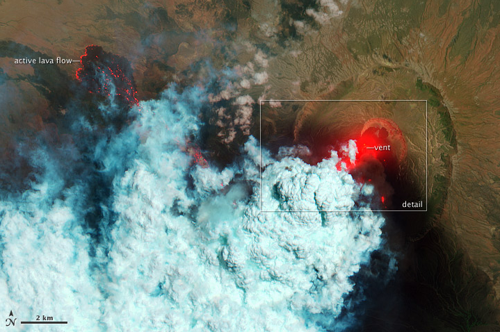 06-24-2011 Detailed Views of Erupting Nabro Volcano